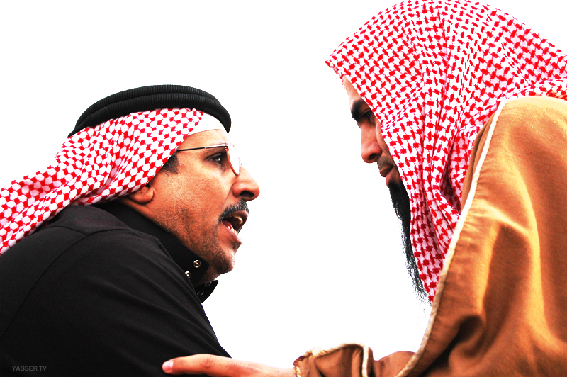 هيئة الأمر بالمعروف والنهي عن المنكر السعودية Commission for the Promotion of Virtue and Prevention of Vice